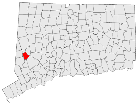 Locator map for Brookfield, Connecticut